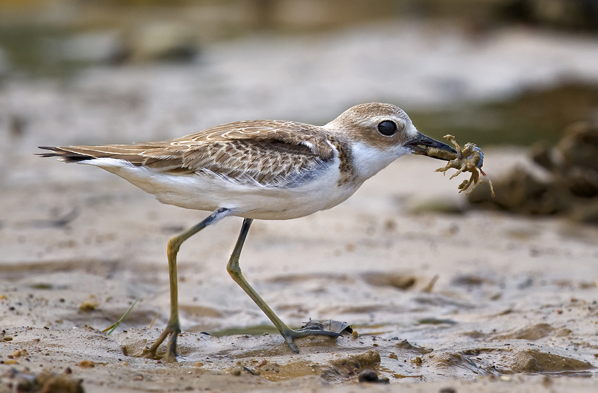 Greater Sand Plover Equipment : - ISO 400, F9.0, 1/400sec - Nikon D3 - Nikkor AFS 500mm F.4 VRII